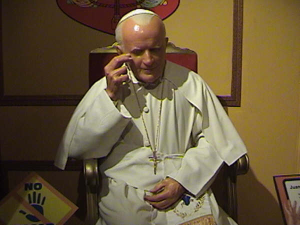 Pope John Paul II